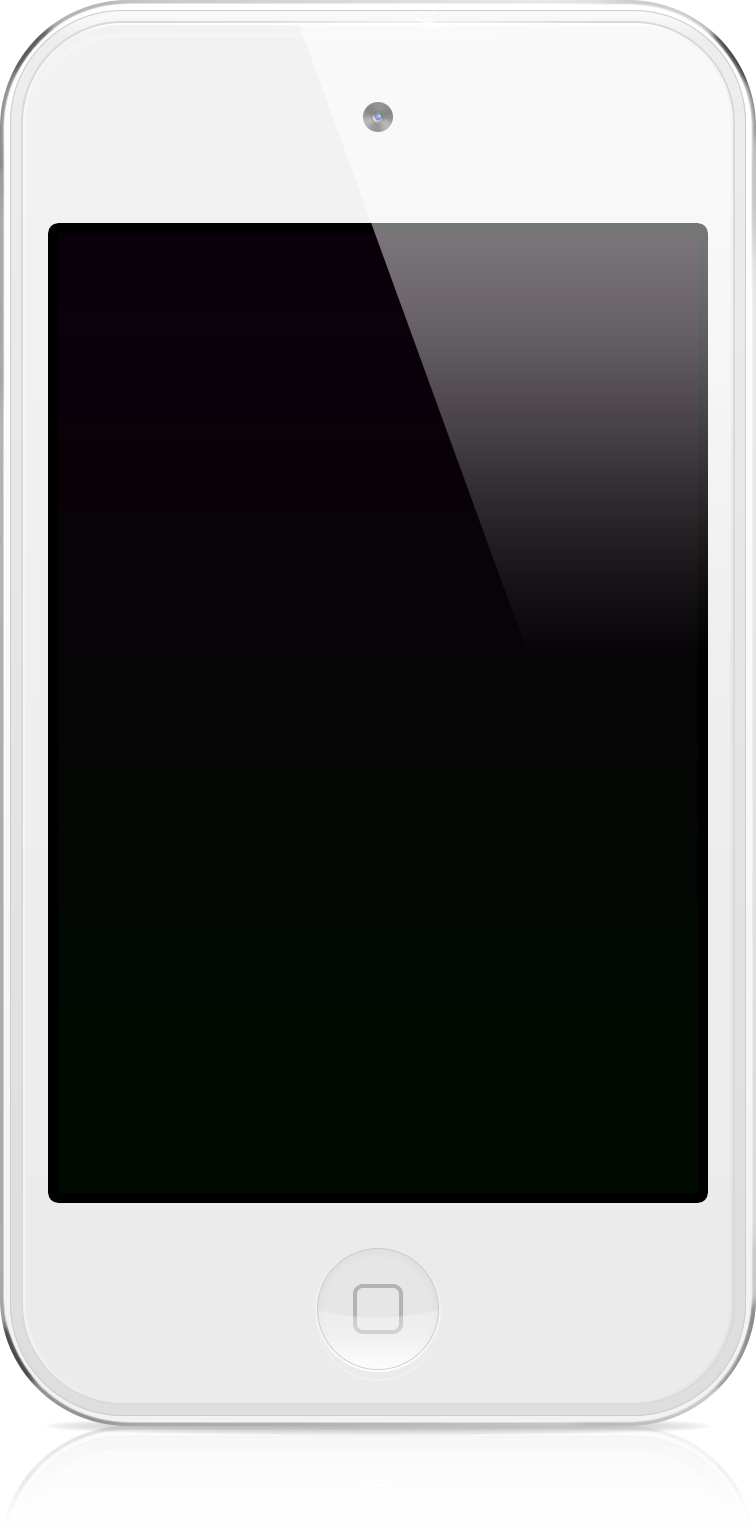 iPod touch 4th generation white running iOS 5.